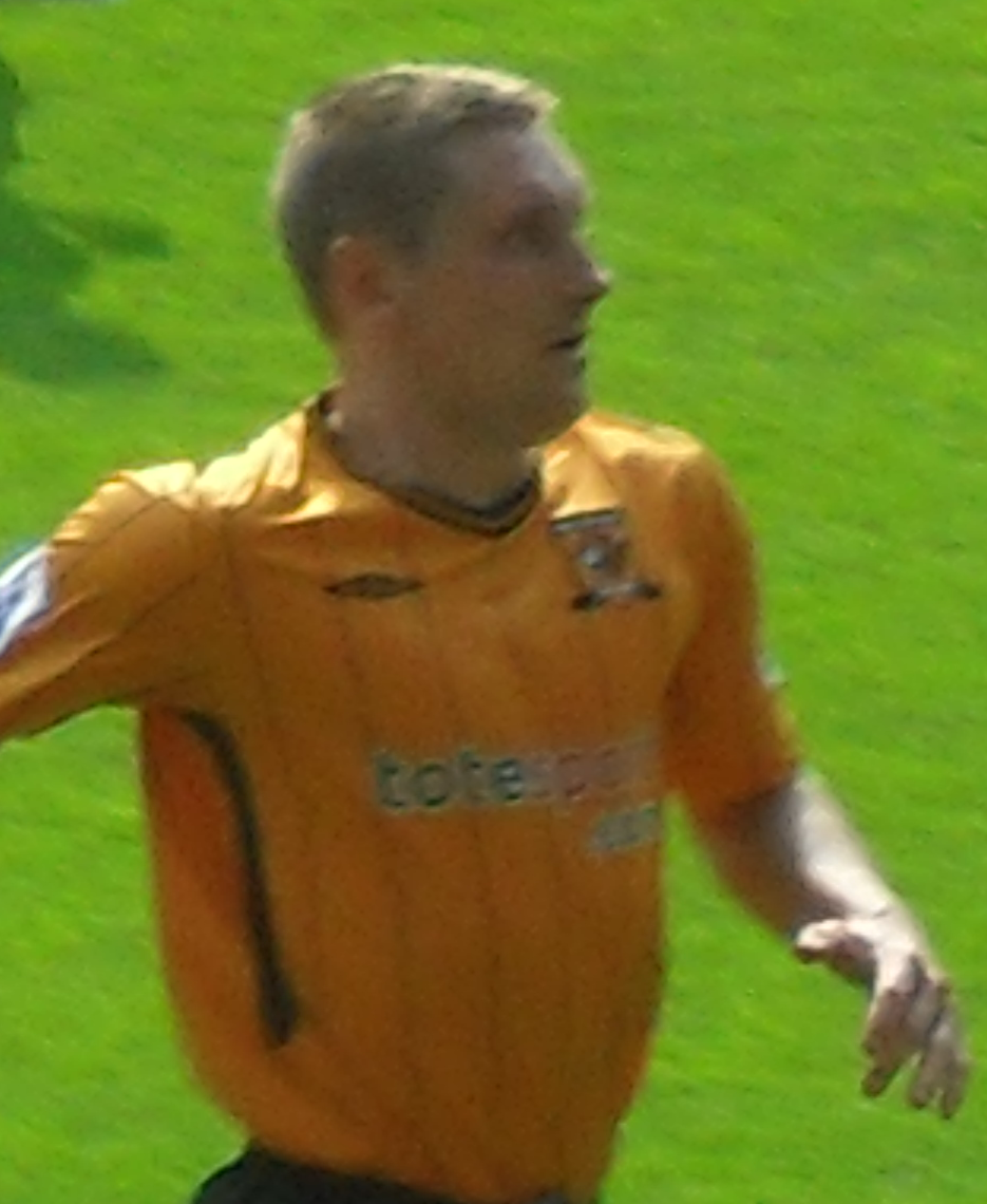 Andy Dawson